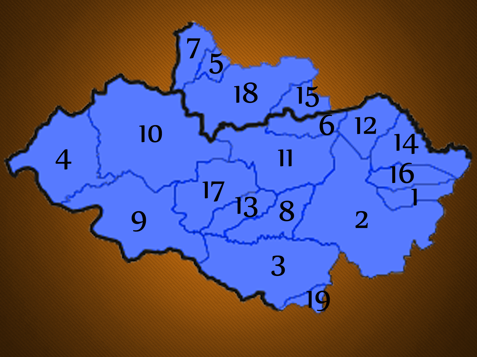 MAPA DETALHADO DA REGIÃO DE GOVERNO ARARAQUARA, NO ESTADO DE SÃO PAULO